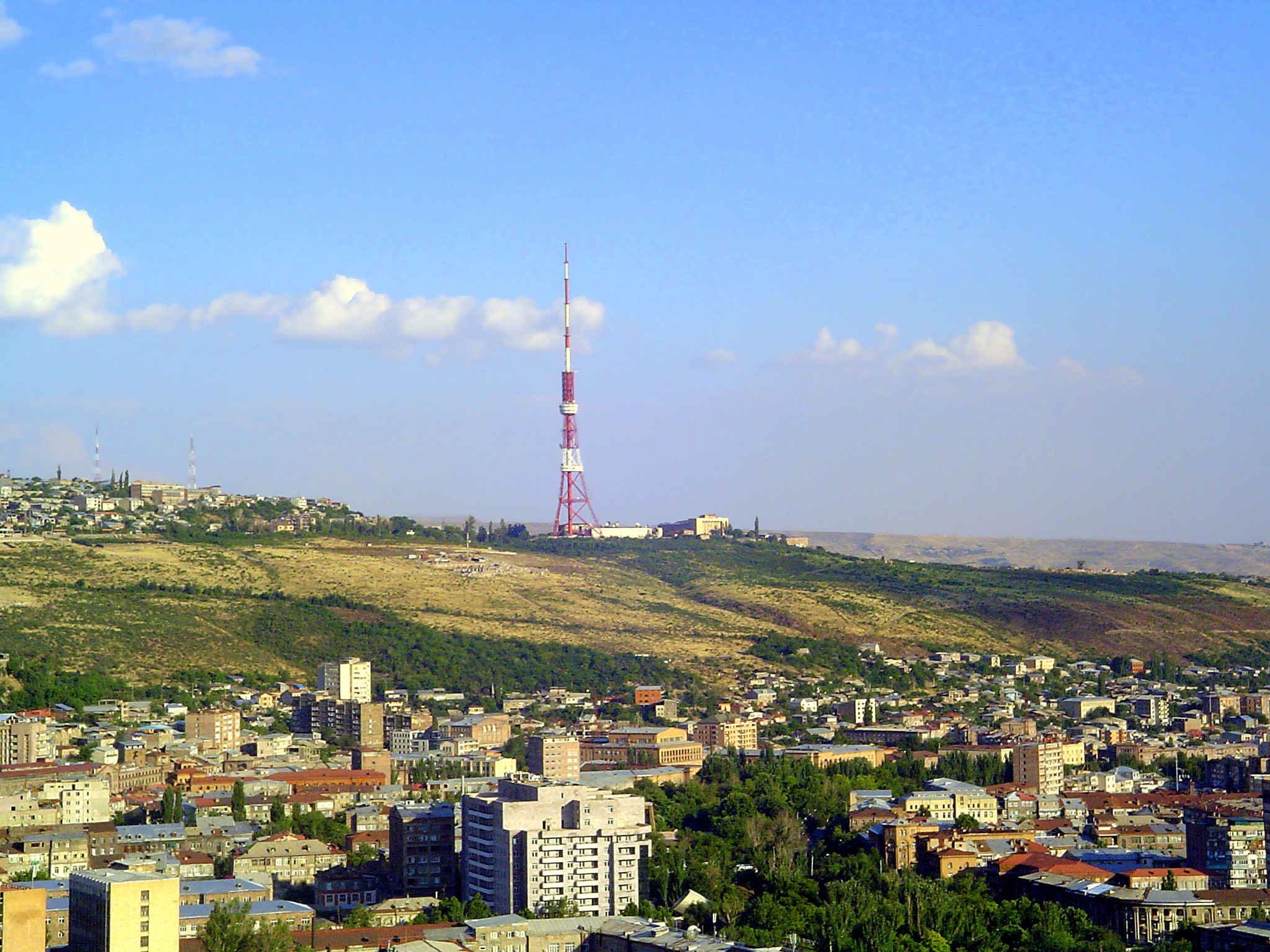 Yerevan from Cascade